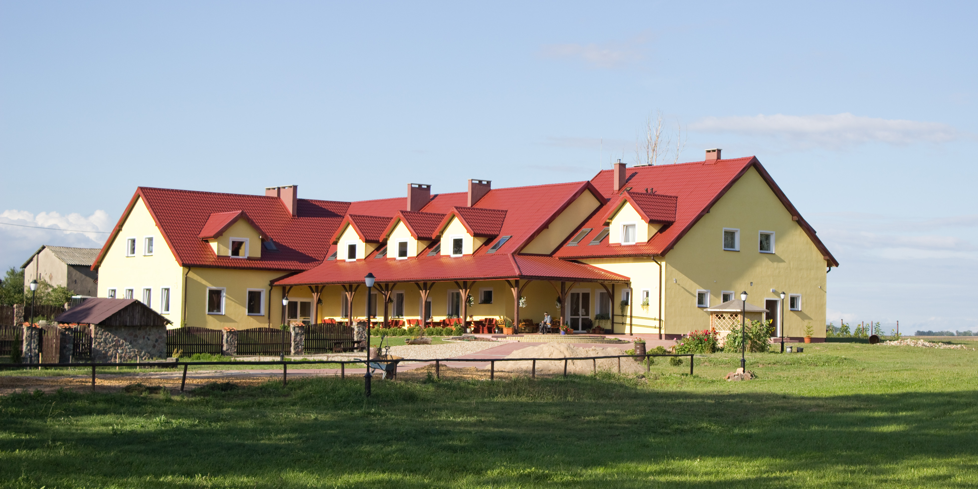 Manor house, Filipówka, gmina Kętrzyn, powiat kętrzyński, Warmian-Masurian Voivodeship